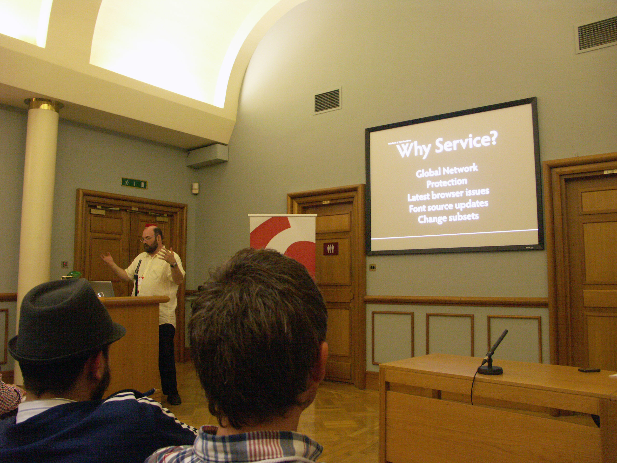 Extensis’ Thomas Phinney (formerly of Adobe) on Foundries and the business of web fonts.